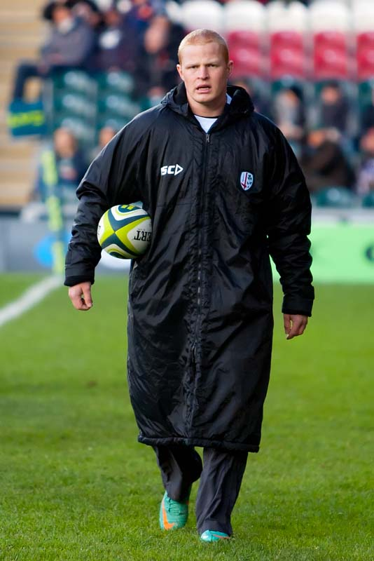 London Irish player Tom Homer warms up during an LV= Cup pool match at Welford Road, Leicester on Sunday 18th November 2012.